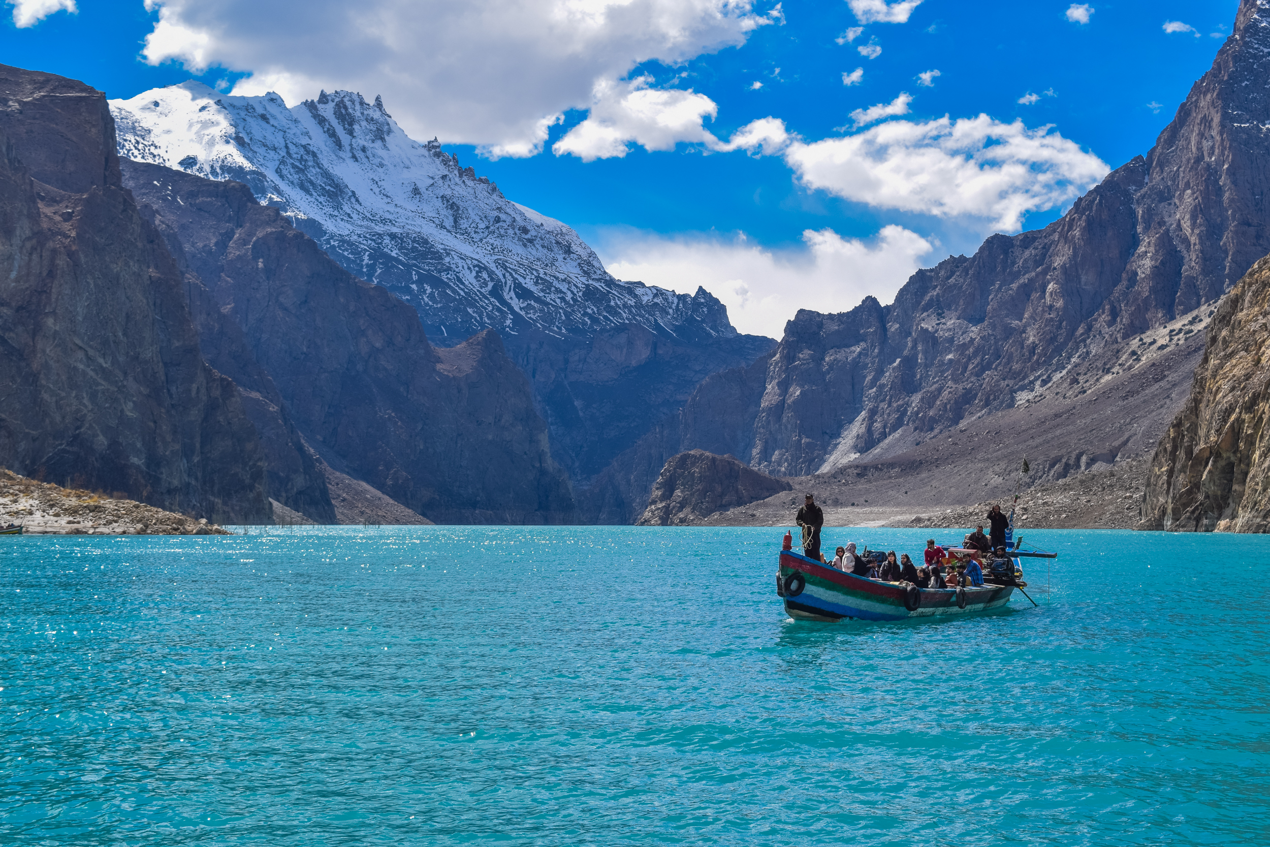 A disaster has never looked so beautiful before Attabad lake was formed because of landsliding and destroyed several homes